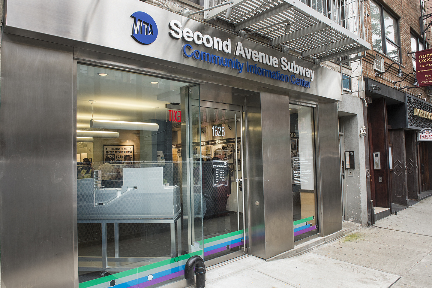 The new Second Avenue Subway Community Information Center at 1628 Second Avenue, between 84th and 85th streets, opened July 25, 2013. MTA Photo by Patrick Cashin